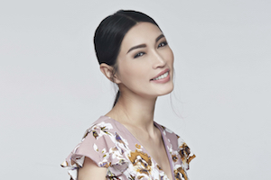 Perfect Line Ambassador